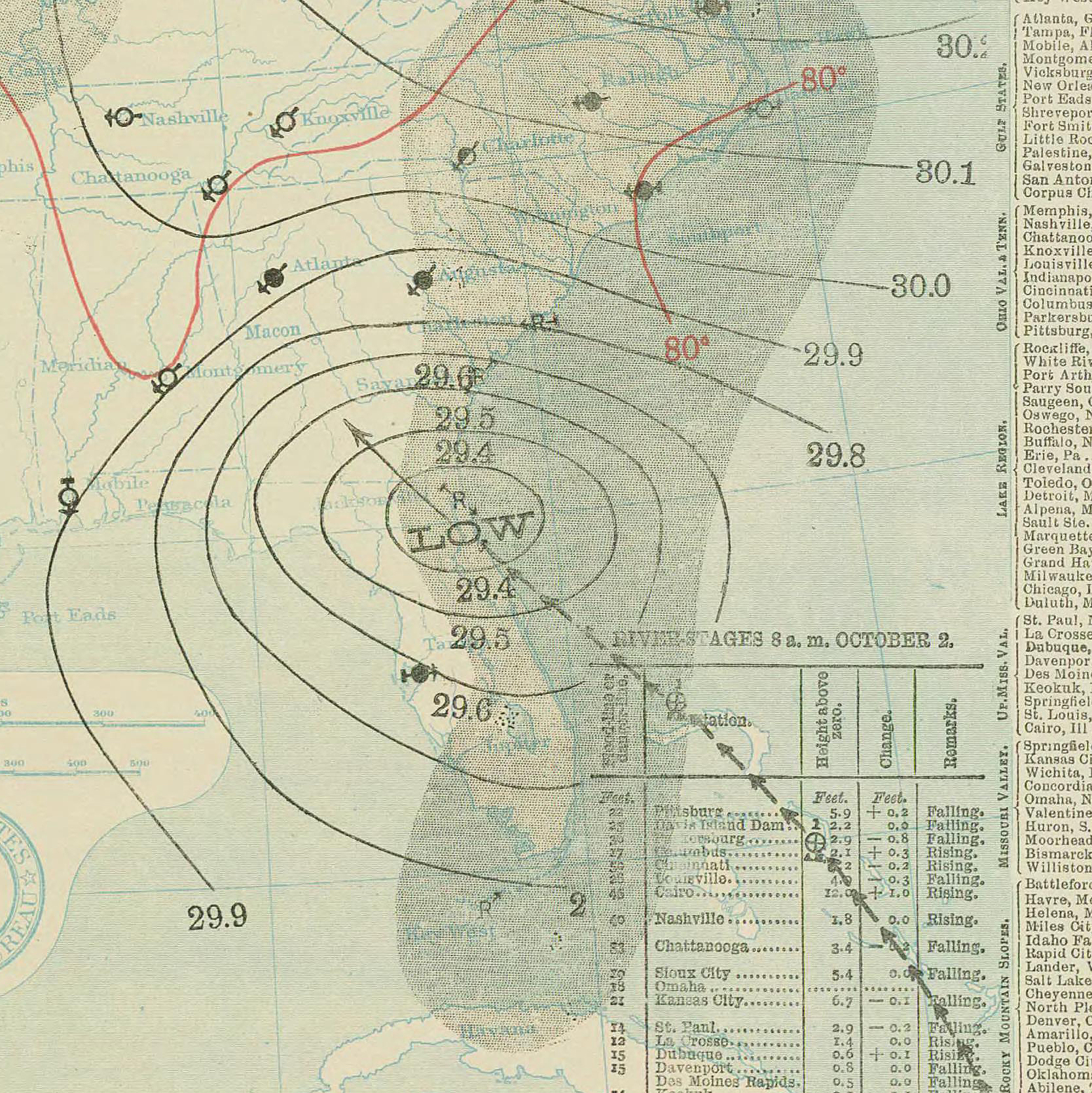 Surface weather analysis of Hurricane Seven on October 2, 1898.